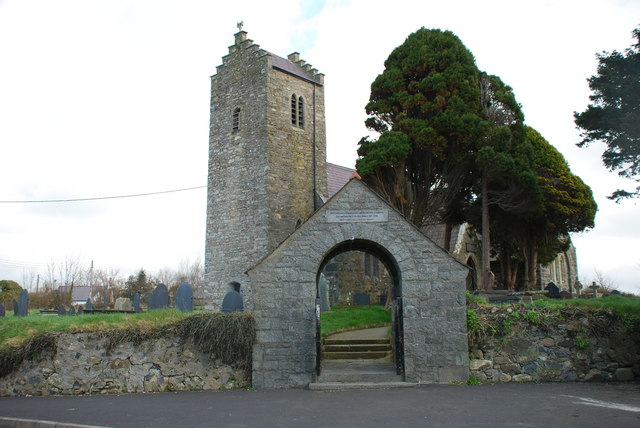 Eglwys Llannor Church The parish church of the Holy Cross at Llannor consists of an undivided chancel and nave dating primarily to the 13th century, with a tower to the west of 15th or 16th century date. The South transept and porch are modern.